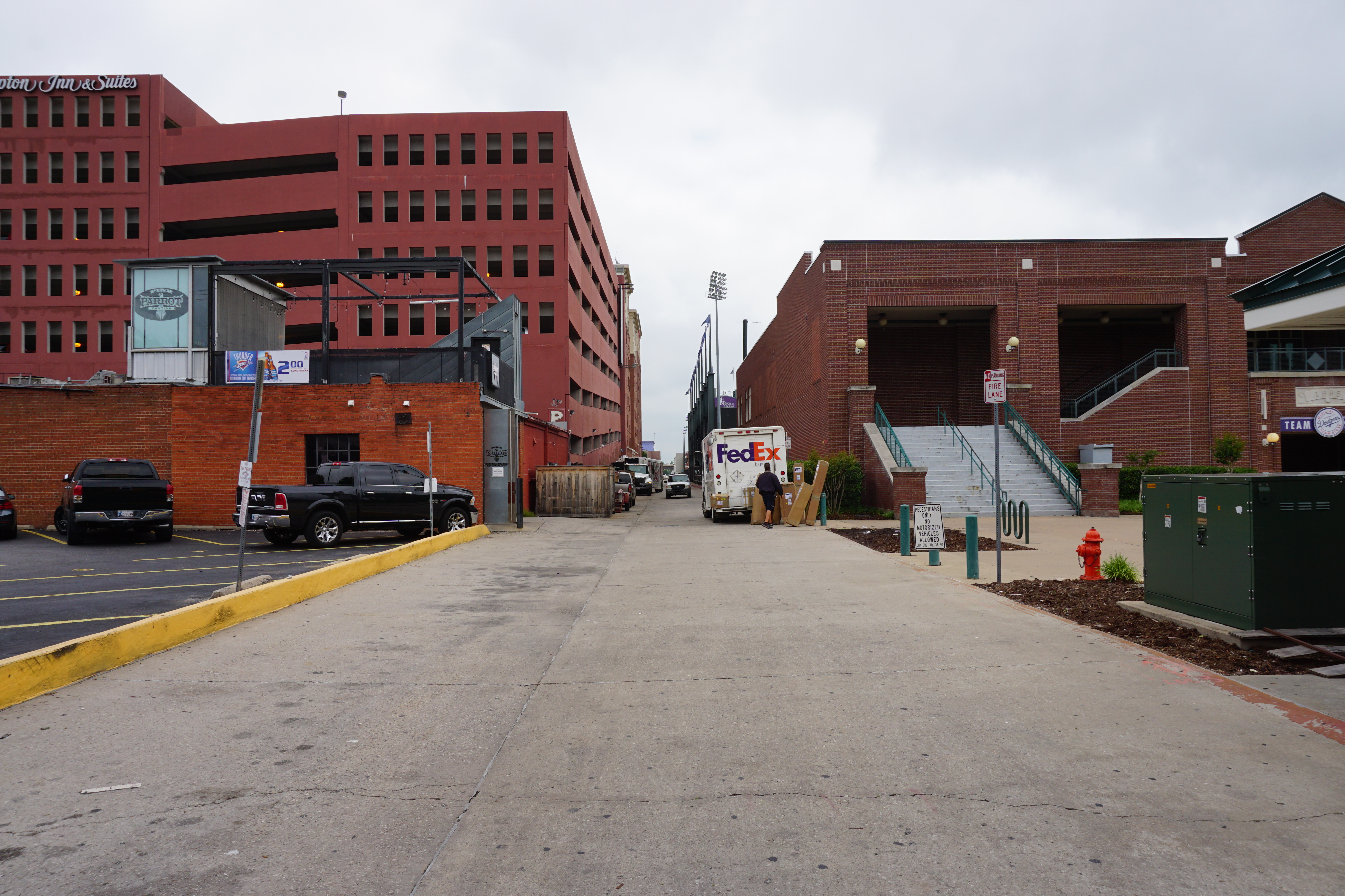 Flaming Lips Alley in the Bricktown district of Oklahoma City, Oklahoma (United States).